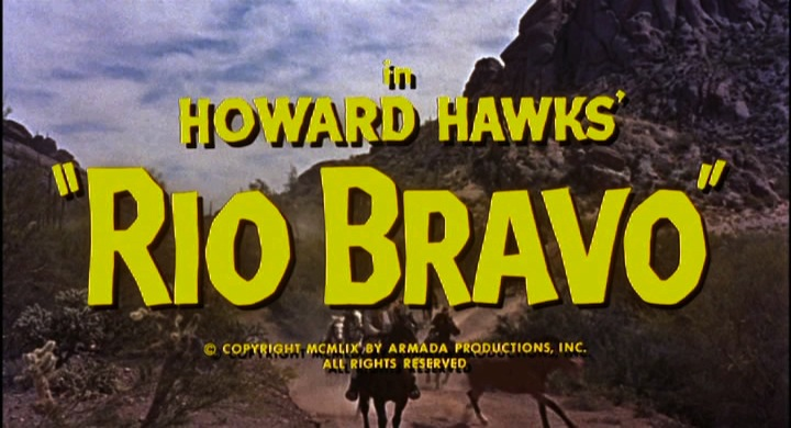 Cropped screenshot from the trailer for the film Rio Bravo